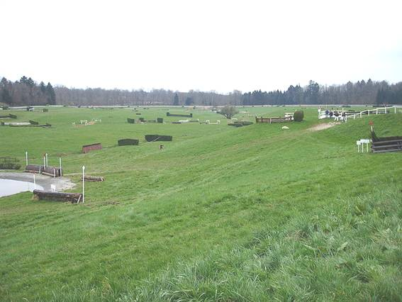 Global view of cross-country of Pompadour (France)